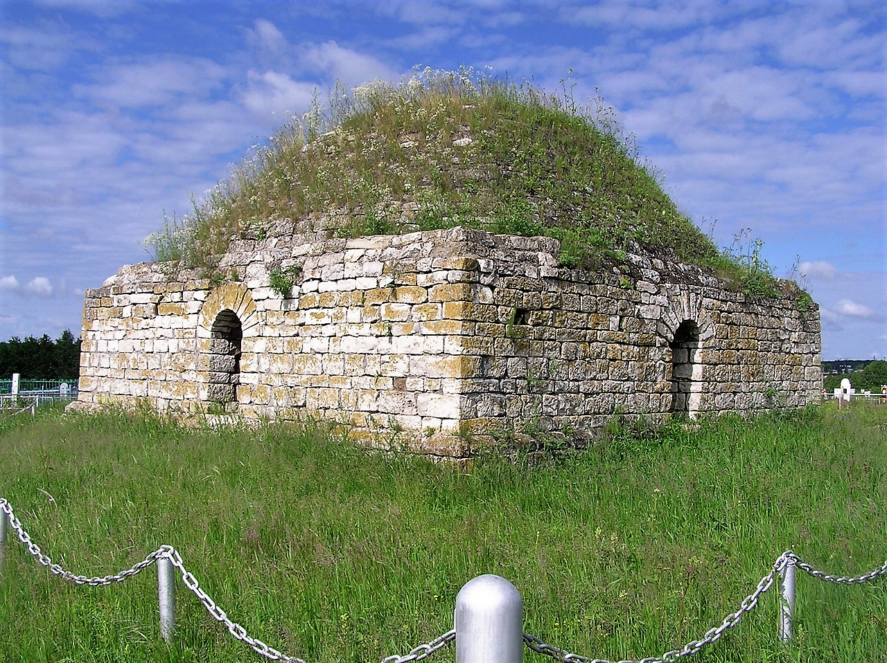 Mausoleum of Huseynbek of the XIV Century, Bashkortostan.